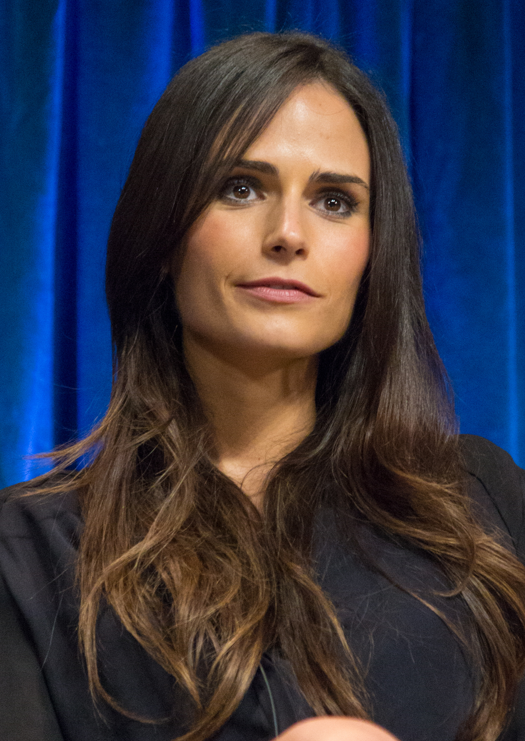 Jordana Brewster at the PaleyFest 2013 forum on the TV show Dallas